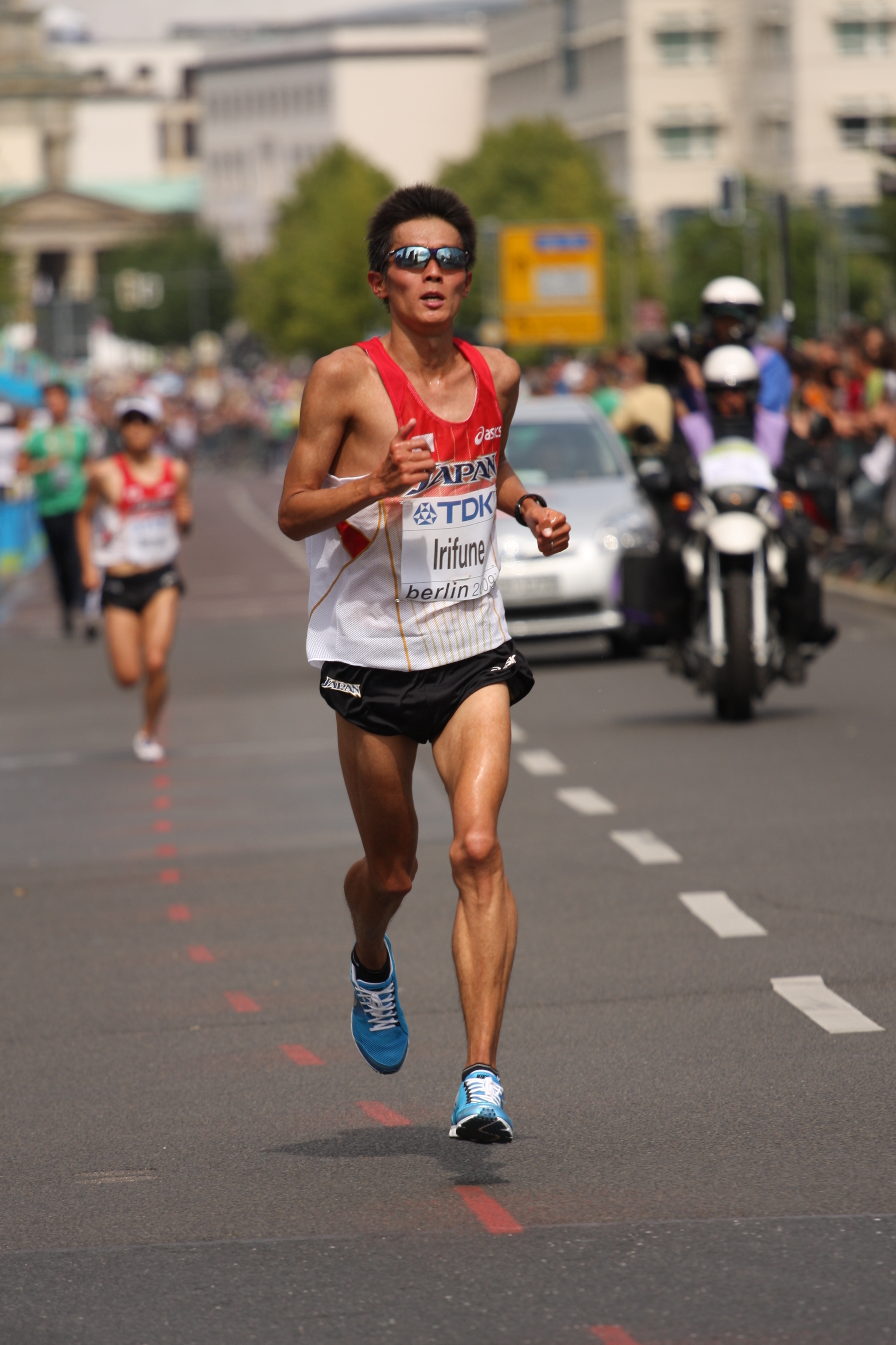 Marathon